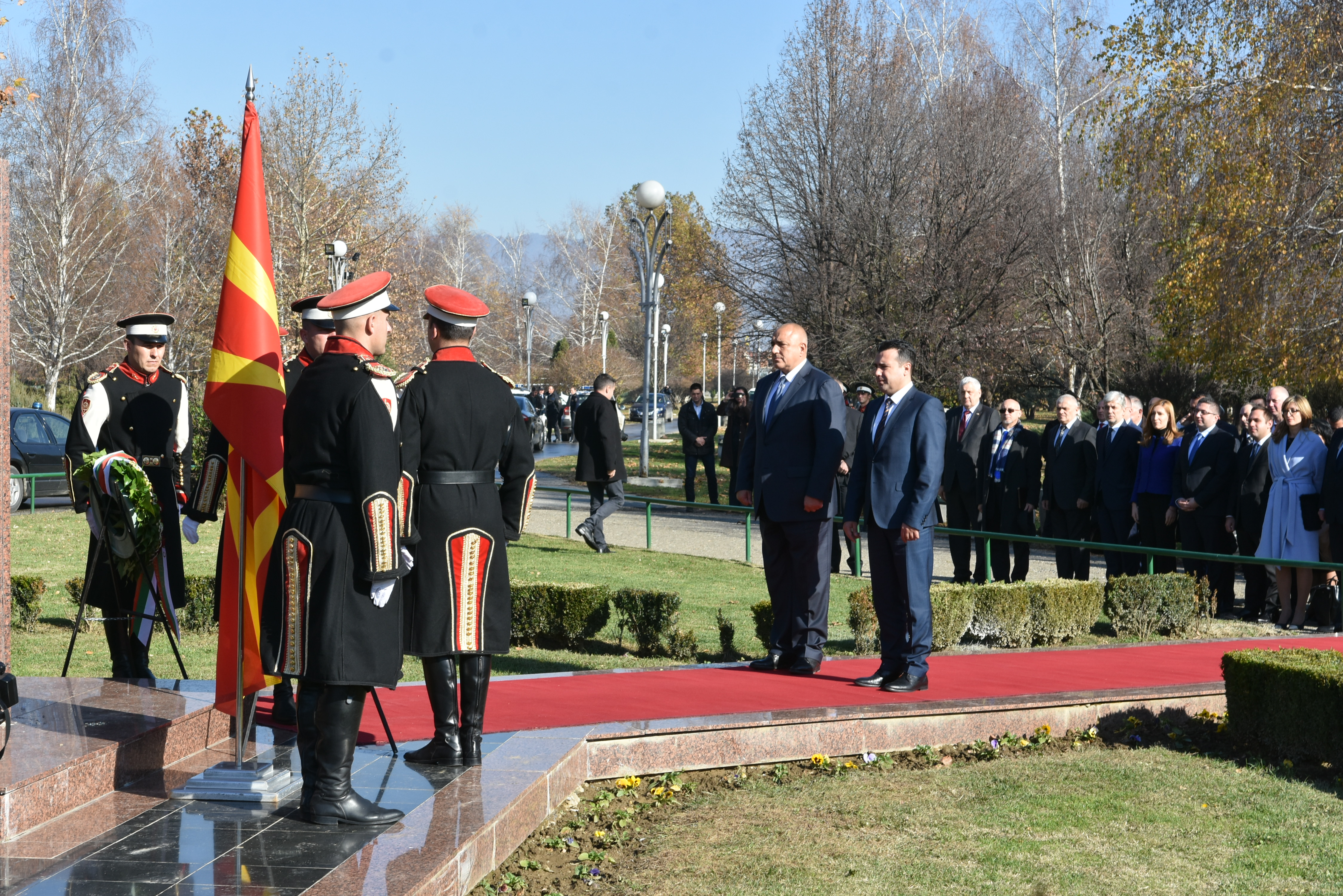 Boyko Borisov, prime-minister of Bulgaria and Zoran Zaev, prime-minister of Macedonia honoring Boris Trajkovski, ex-president of Macedonia in front of his monument in the Central Park in Strumica, Republic of Macedonia.